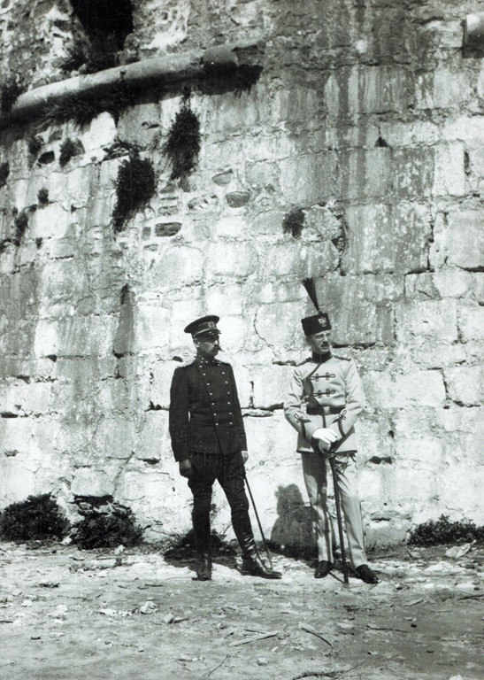 General De Veer and Prince Wied’s private secretary Duncan Heaton-Armstrong in Durrës, Albania.